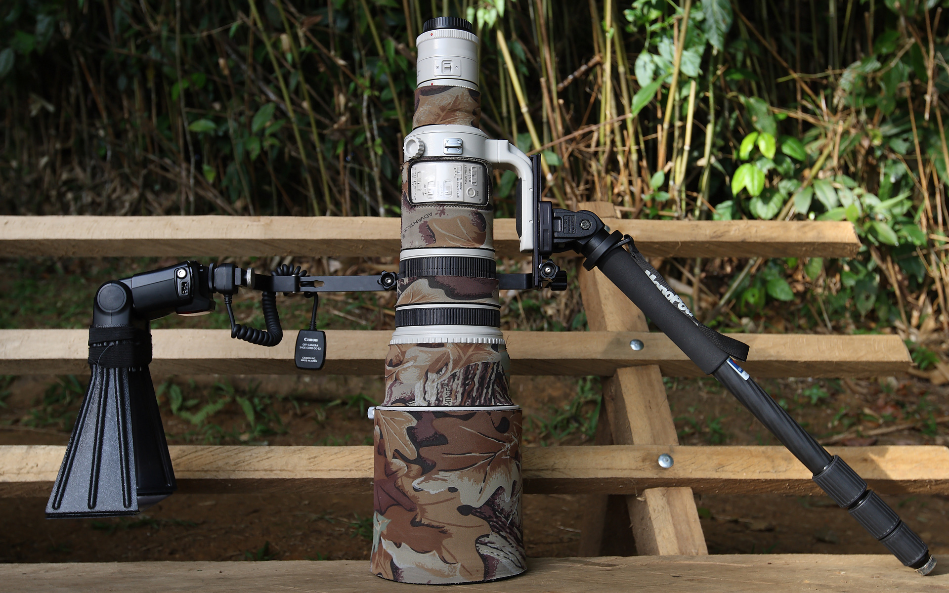 Canon EF 500mm/4L IS USM lens Scale: immediately attached to the lens, at the handle just to the right of the control panel, is a black Arca-Swiss style quick-release (QR) plate that is 15cm long. Also attached to the QR plate is a monopod (angling down and to the right) and a flash bracket (the black horizontal bar going, from right to left, behind the manual focusing ring). The flash bracket is holding a Canon 580EX flash and a short "off shoe" extension cord. The body of the flash is itself supporting a flash extender -- it is the triangular shape hanging downwards from the front. The normally white lens is wrapped in a protective neoprene shell, decorated with a "forest oak" camouflage pattern. At the top of the lens is a Canon EF 2.0x teleconverter, effectively making it a 1000mm f/8 optic. At the bottom of the lens, comprising about 1/4 of the entire length of the assembly, is the non-optical lens hood.